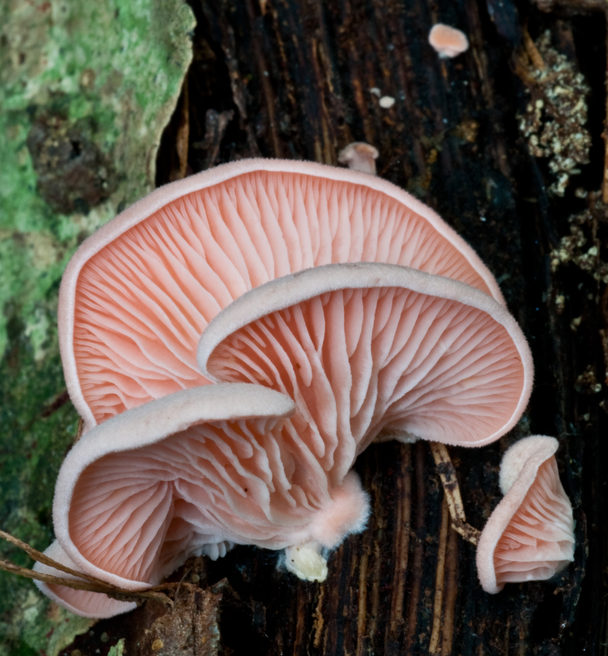 The mushroom Pleurotopsis longinqua. Specimen photographed in Comboyne State Forest, New South Wales, Australia.